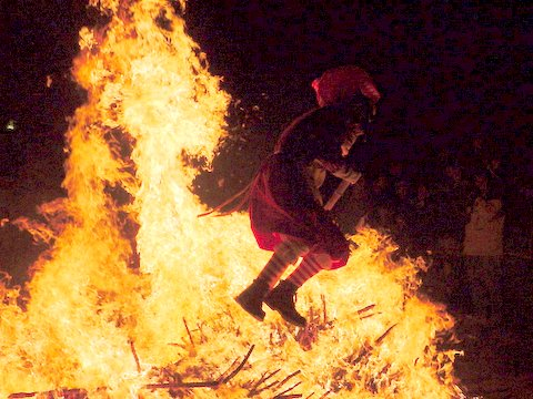 Hexensprung, Donaueschingen See where this picture was taken. ?